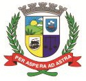 Brasão de Embu-Guaçu